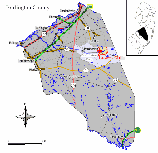 Source: Jim Irwin Original work by Jim Irwin, December 2005.